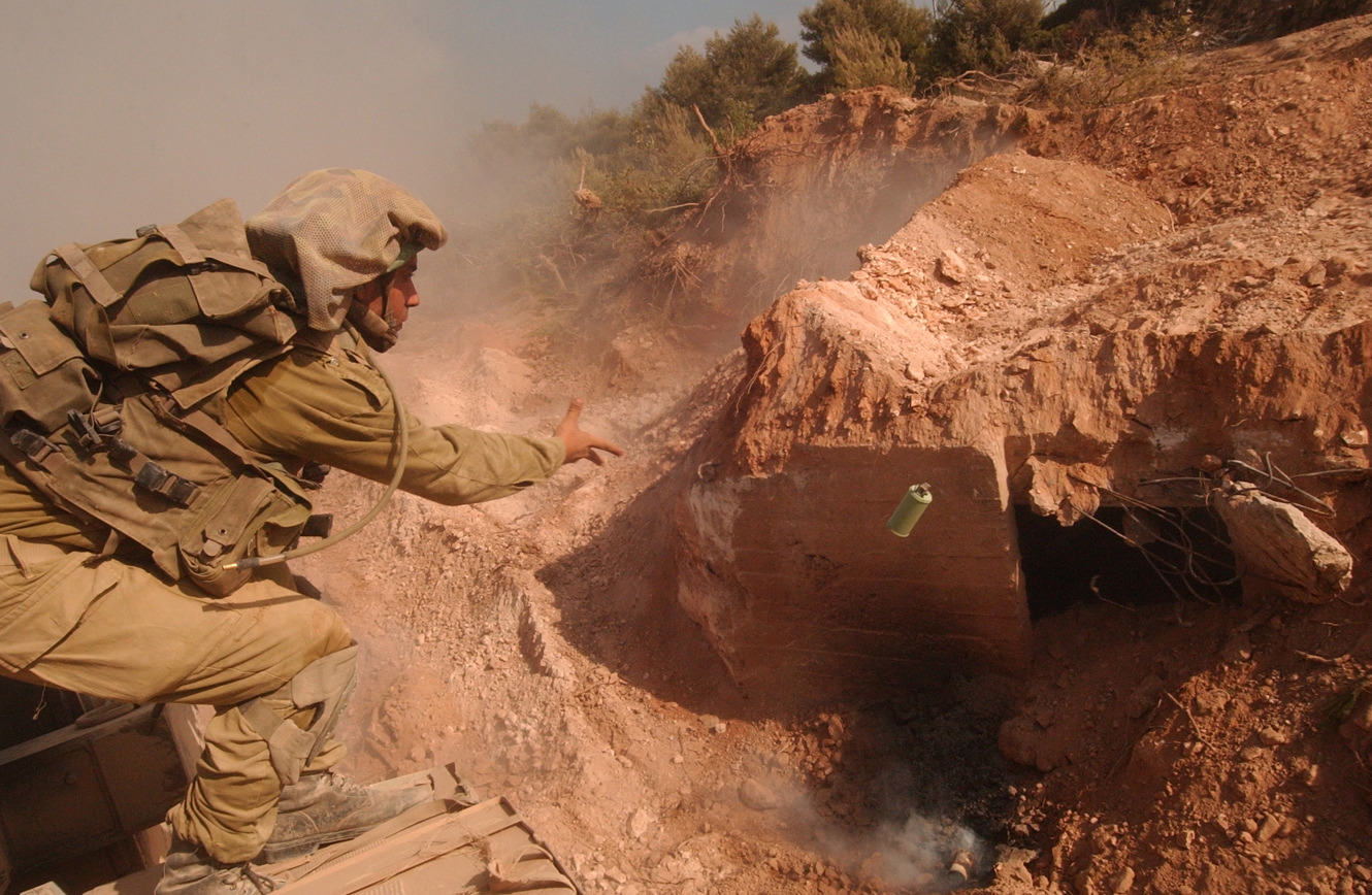 August 26, 2006 Hezbollah bunkers were discovered near a U.N. post. Pictured: The entrance to the bunker